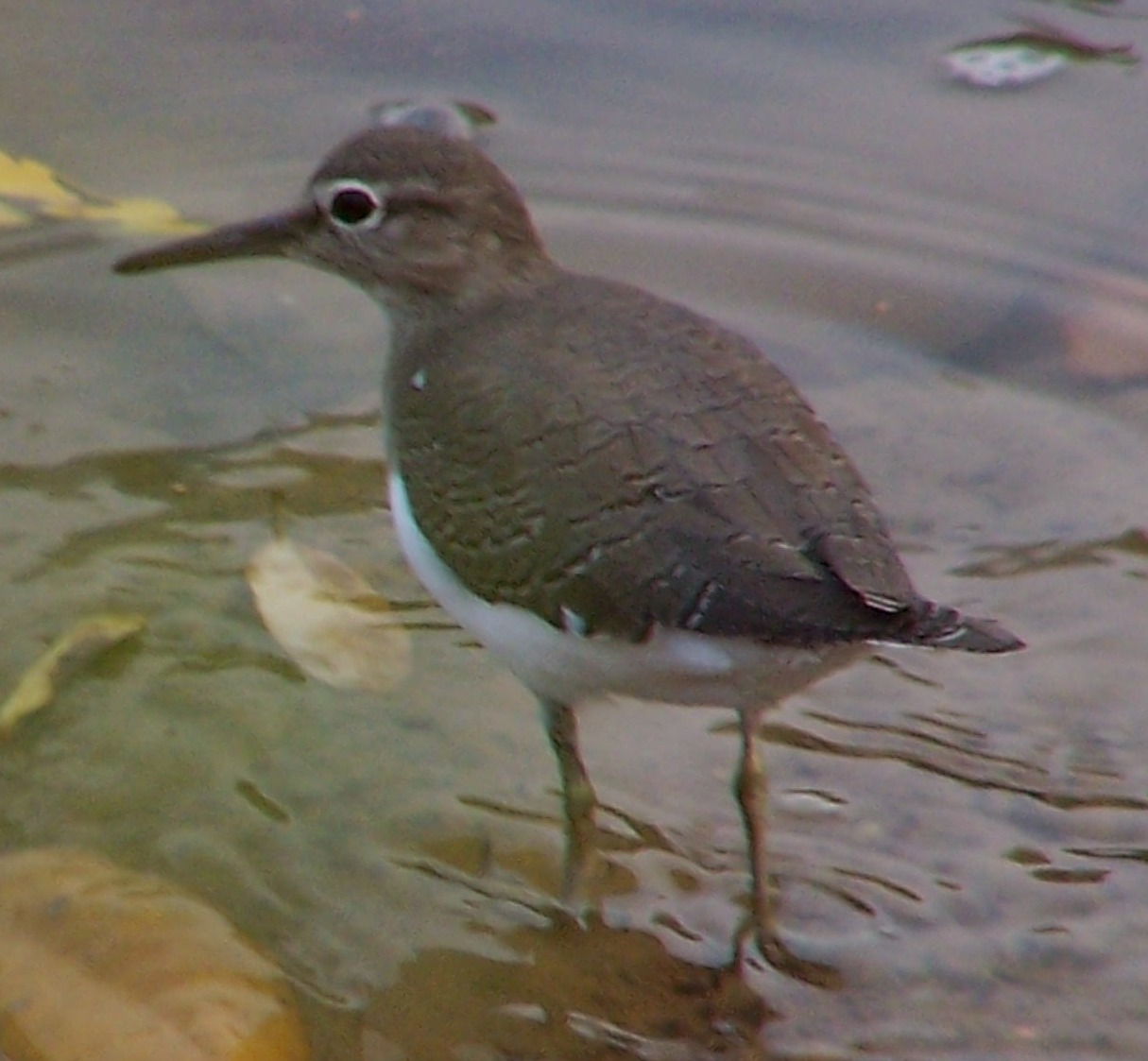 Kclama's photo, Common Sandpiper on the river